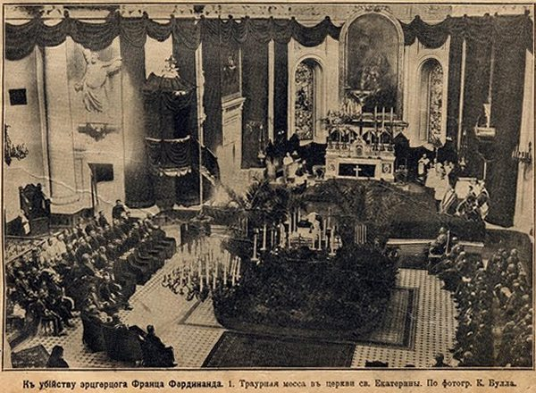 Requiem Mass for archduke Franz Ferdinand in the Roman Catholic cathedral of St. Catherine (St. Petersburg, Russian Empire)